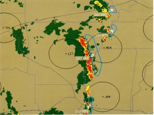 Convective Autonowcaster decision support system (DSS), developed jointly with UW CIMSS and UAH, combine an enhanced convective cloud mask and radar data with corresponding atmospheric motion vectors to monitor the changes in cloud properties producing 30 to 45 minute forecasts of convective weather.